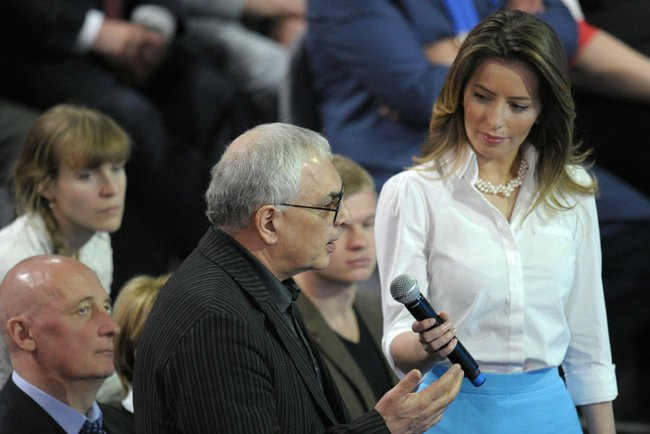 Direct Line with Vladimir Putin (2014-04-17)